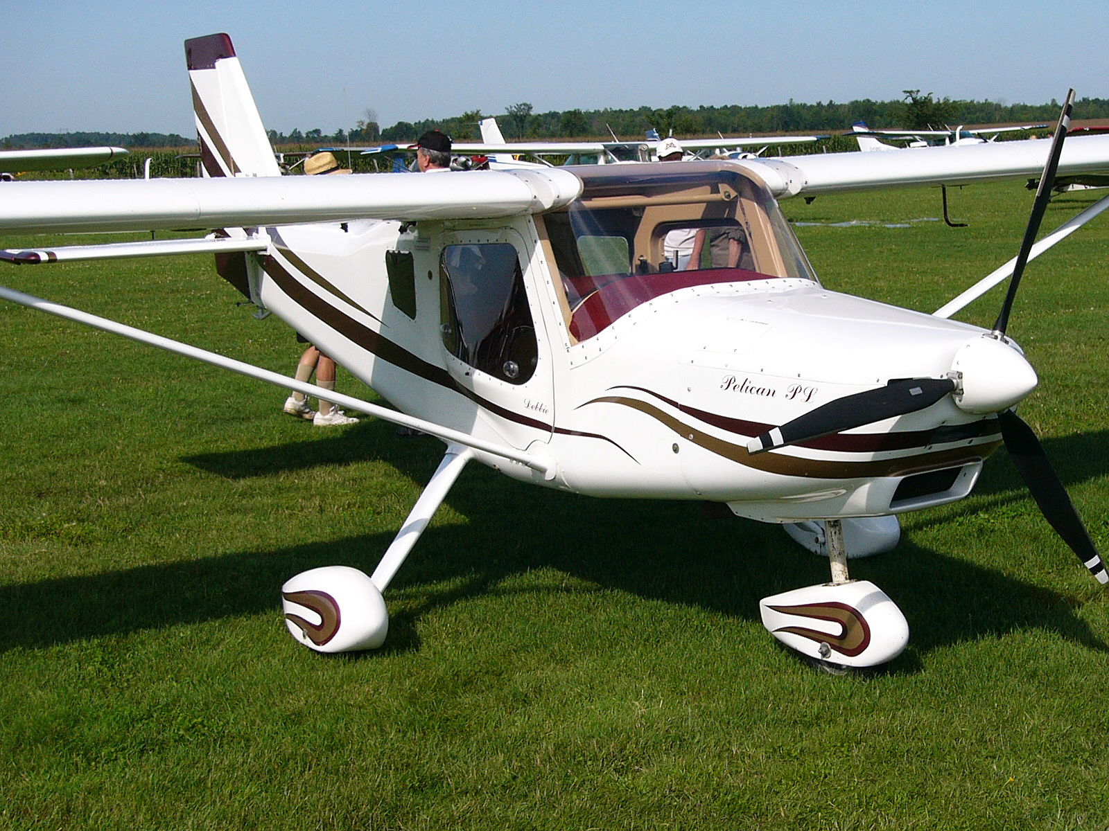 Ultravia Pelican Club PL at the Alexandria, Ontario, Canada, fly-in